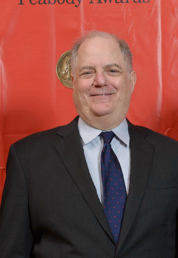 Liz Stanton, Frank Rich, James Lapine and Miky Wolf at the 73rd Annual Peabody Awards for "Six by Sondheim.